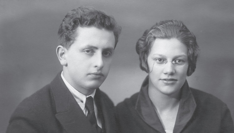 Portrait of Soviet geneticist Juliy Kerkis and his wife Nataliya Zavarzina (1928)